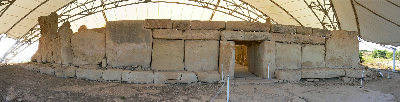 Facade of the Ħaġar Qim temple, Qrendi, Malta